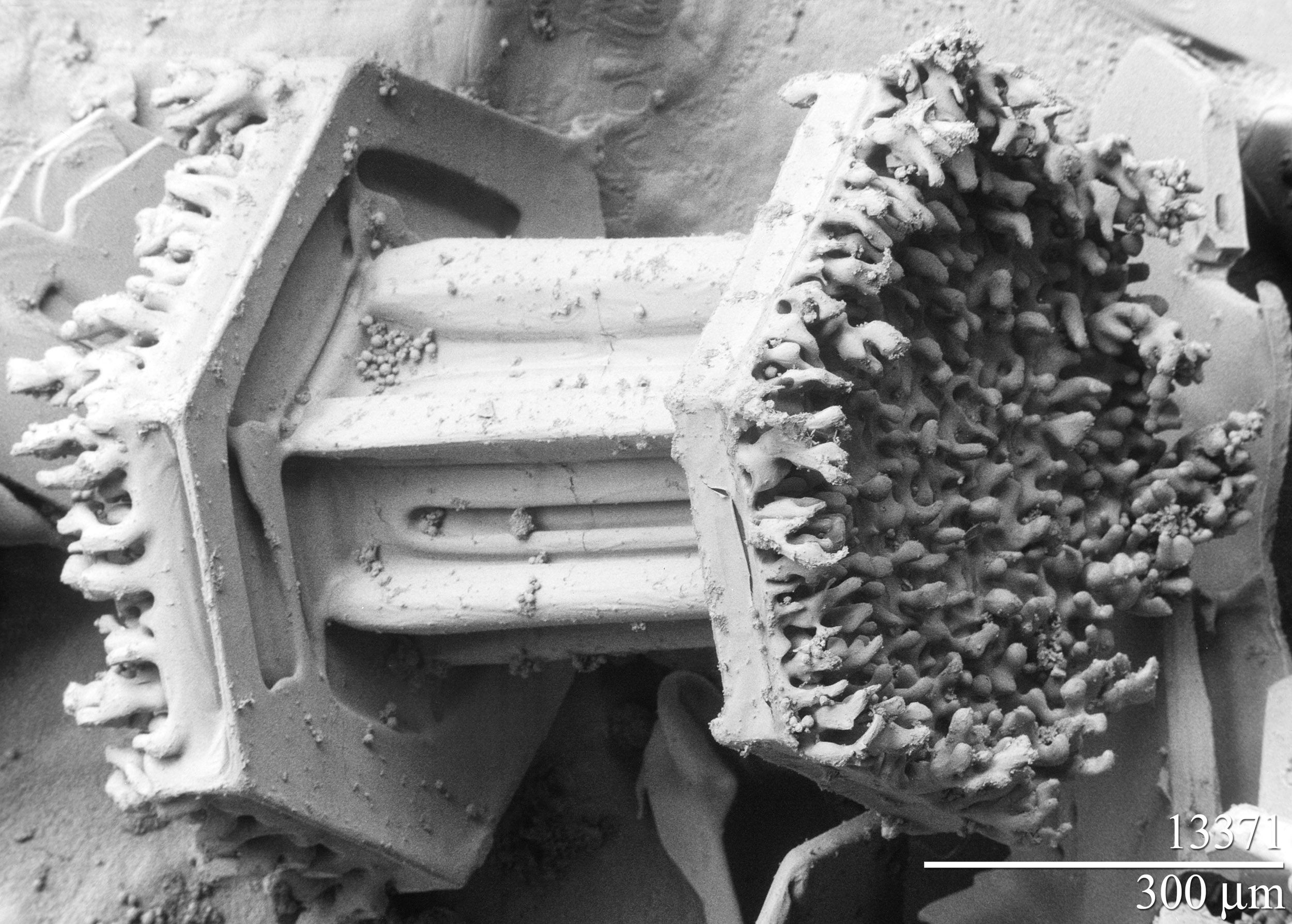 Snowflake 300um LTSEM, 13368, Rime frost on both ends of a "capped column" snowflake.